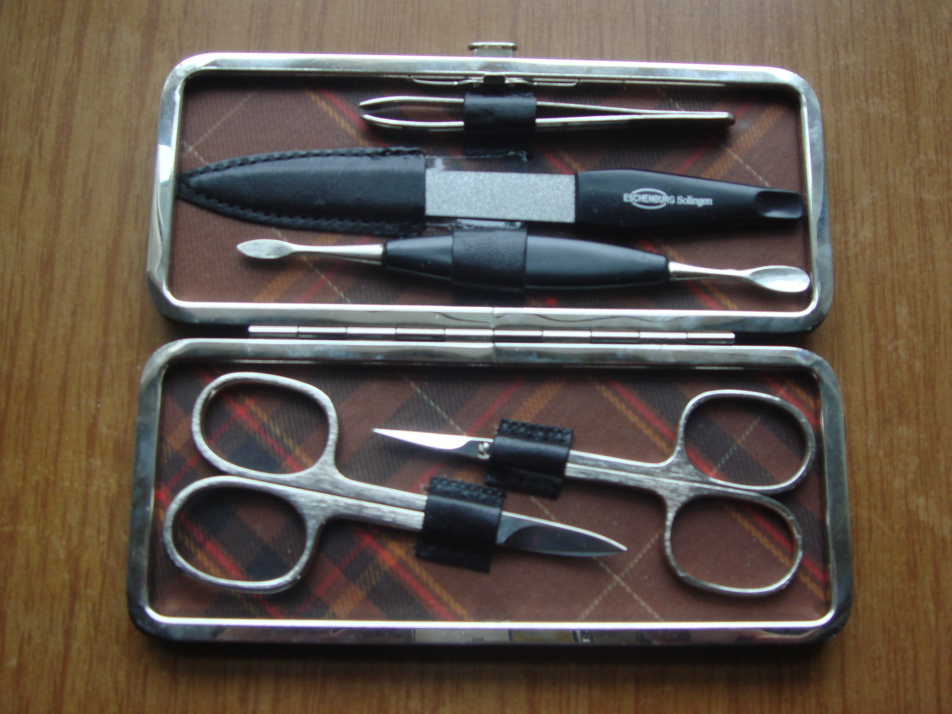 The Bridge black leather manicure set, open